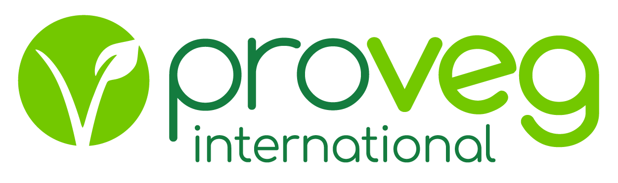 Logo of the international umbrella organisation ProVeg International